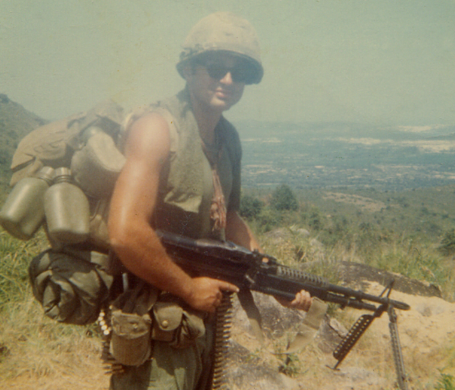 Photo Credit: courtesy Spc. 4 Leslie H. Sabo Jr. carries the M-60 machine gun in 1969.